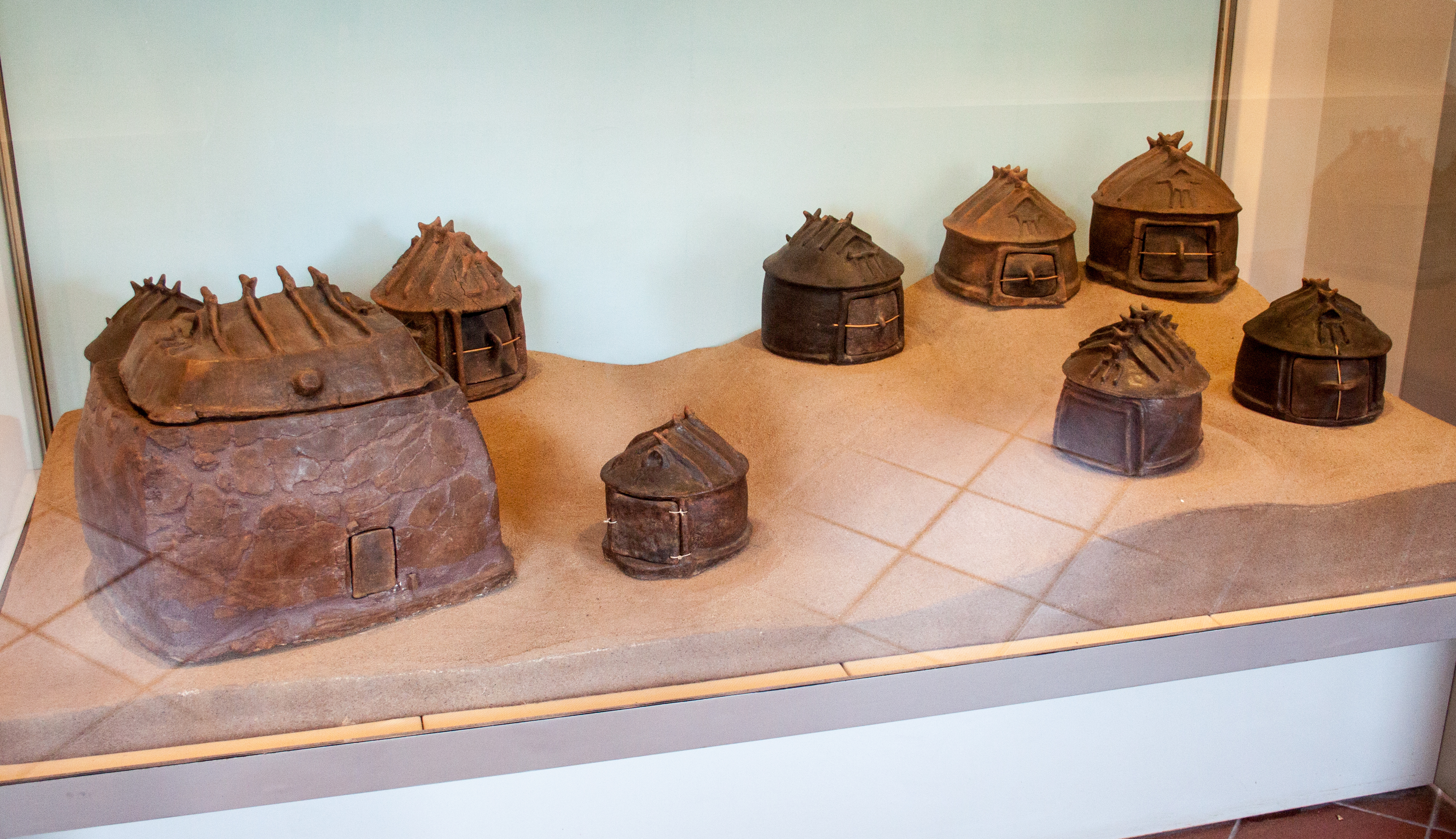 Model of a hut from the Iron Age